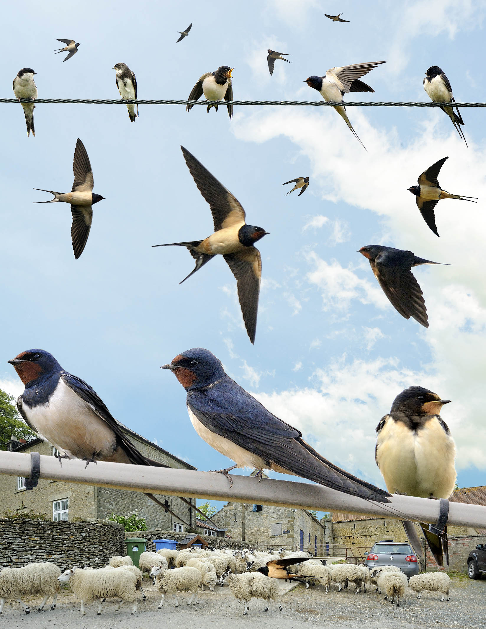 Swallow from the Crossley ID Guide Britain and Ireland